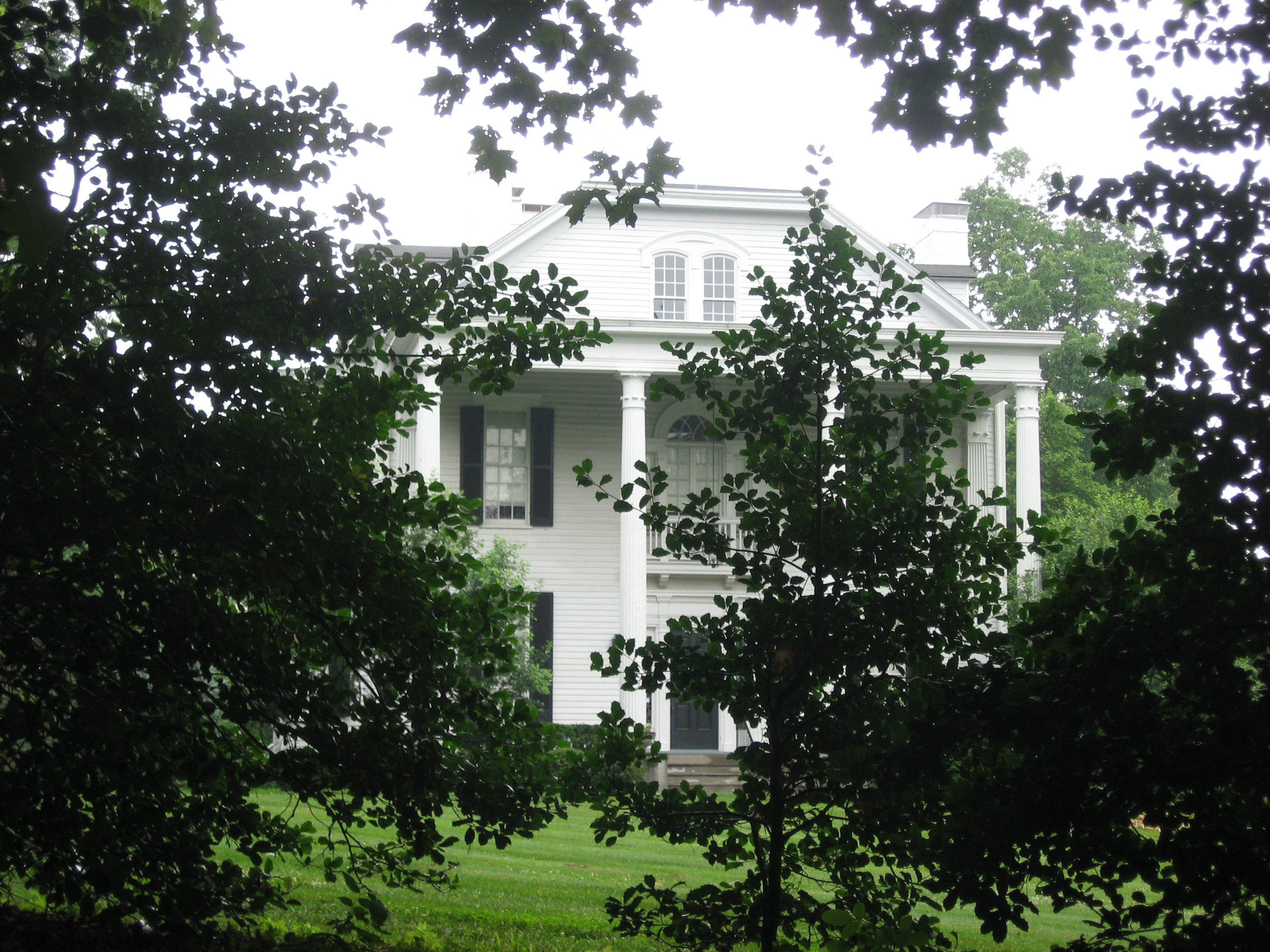 Front of the August Bepler House, located at 805 Tusculum Avenue in the Columbia-Tusculum neighborhood of Cincinnati, Ohio, United States. Built in 1869, it is listed on the National Register of Historic Places.